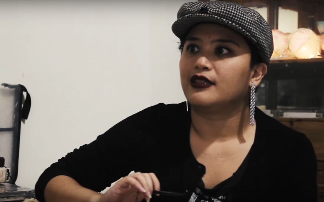 In the music scene, Kartika Jahja is better known by her nickname, Tika. Born in Jakarta, Indonesia on December 19, 1980. She is an independent singer-songwriter with the band Tika and The Dissidents